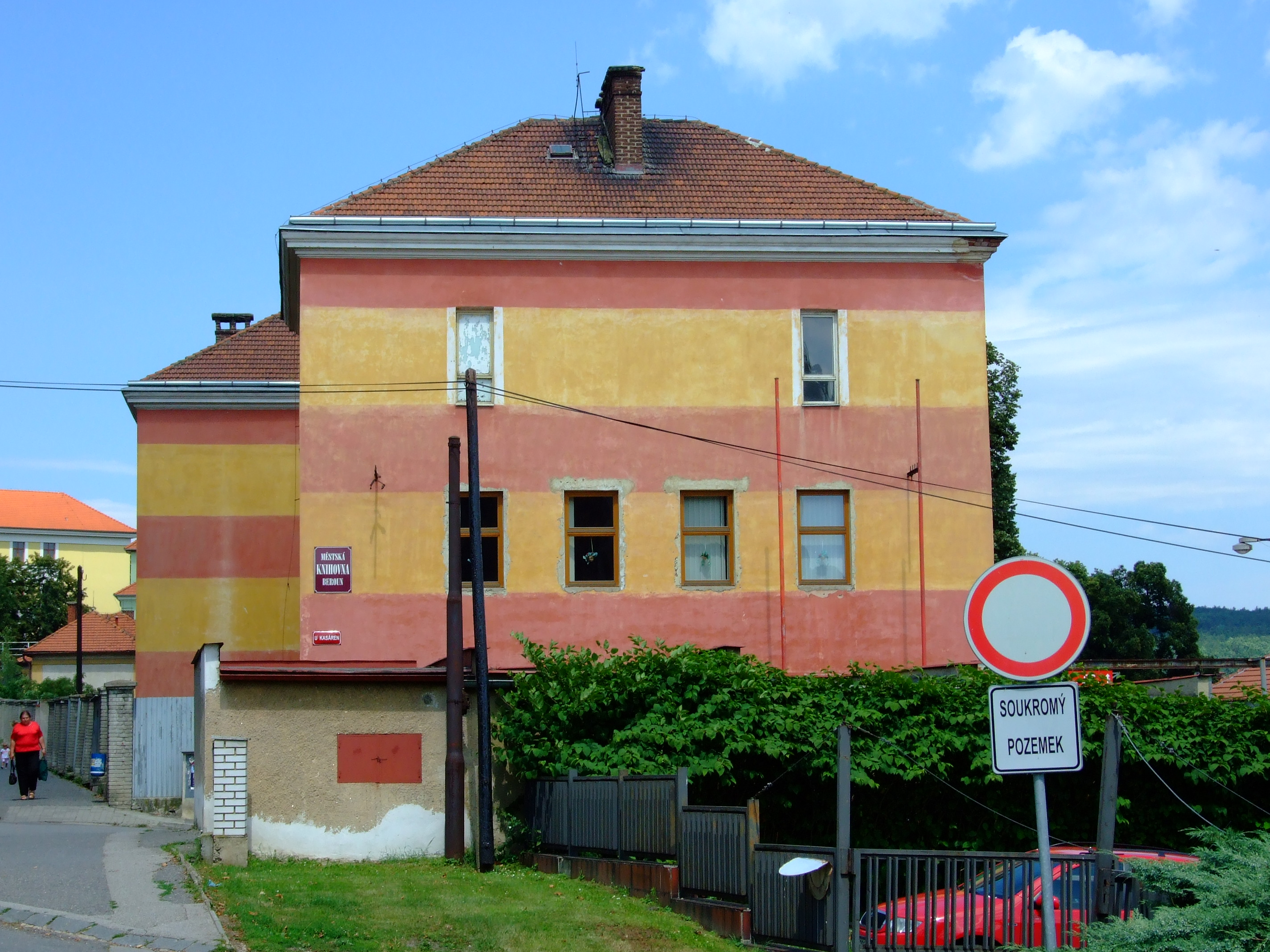 District seat city of Beroun, Central Bohemian region, CZ, city libraryhelp